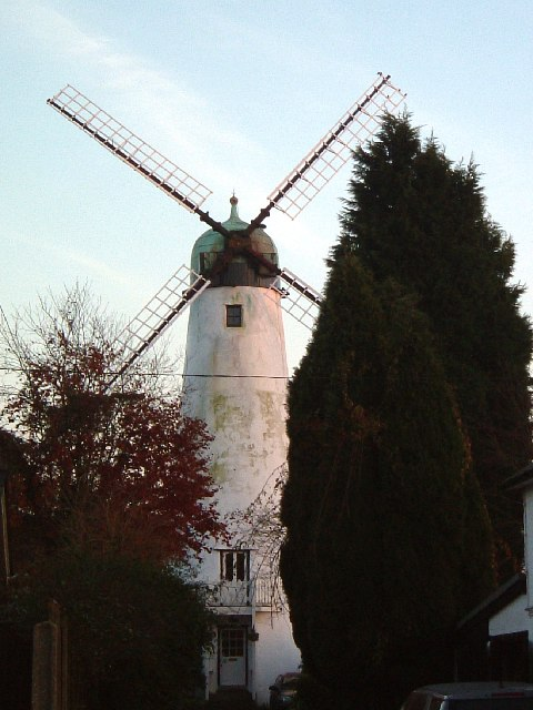 The converted windmill at Cholesbury, Buckinghamshire